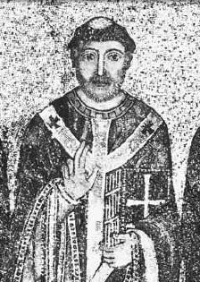 Julius I. (* in Rom; † 12. April 352) right side detail of 12th-century mosaic in the apse of the church of S. Maria in Trastevere, Rome.